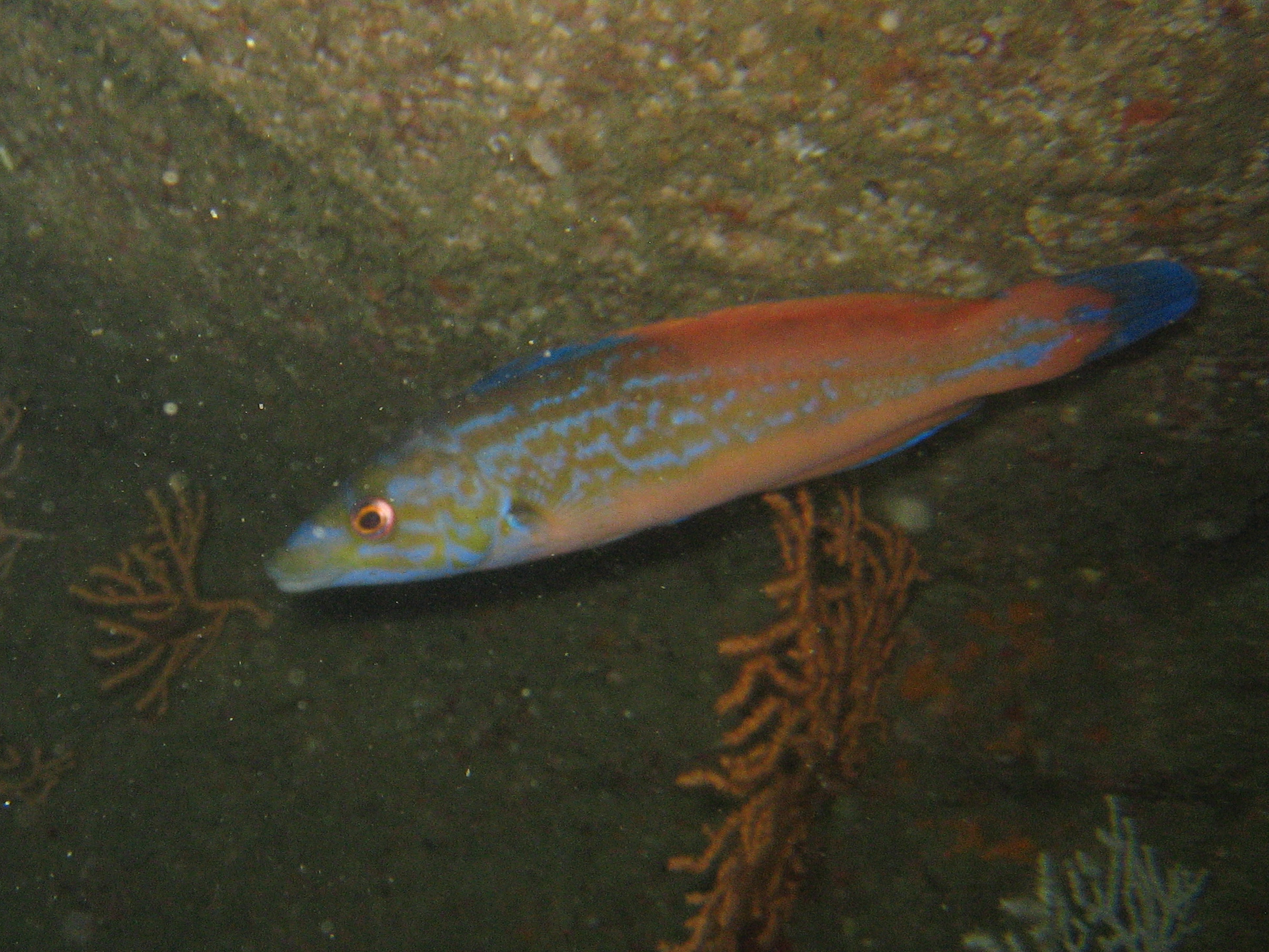 Male Labrus mixtus in Carantec.